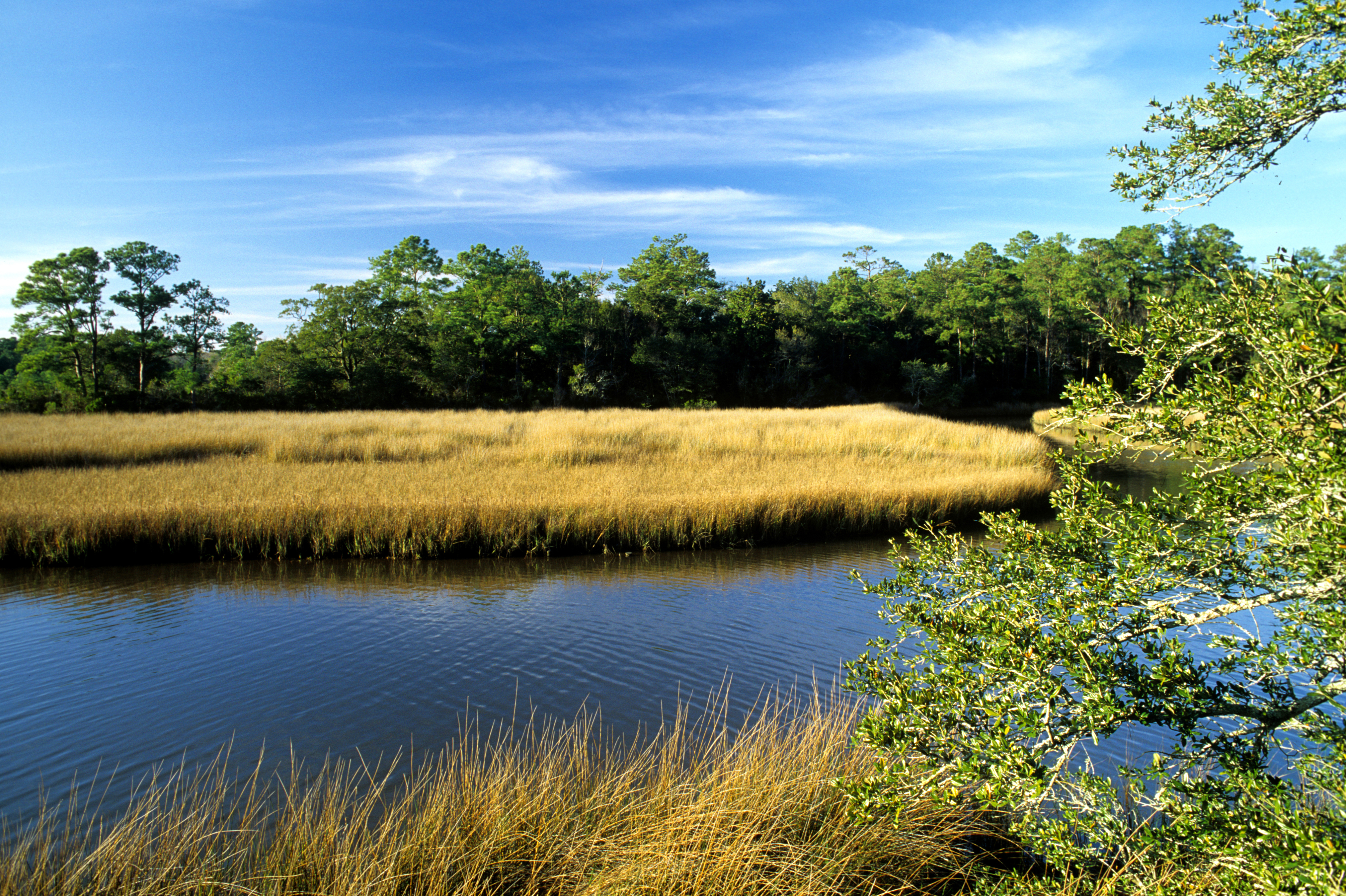 Salt marsh in Florida, USA, with Spartina alterniflora & Juncus roemerianus